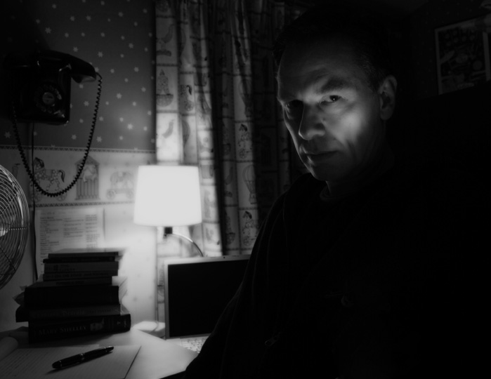 Personal photo of David Hine.